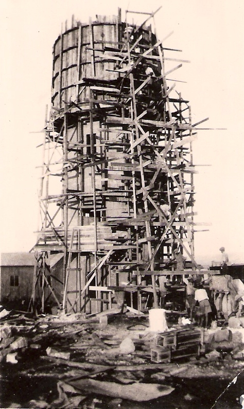 The building of the Water Tower at Kibbutz Mishmarot by the building group of Mishmarot members